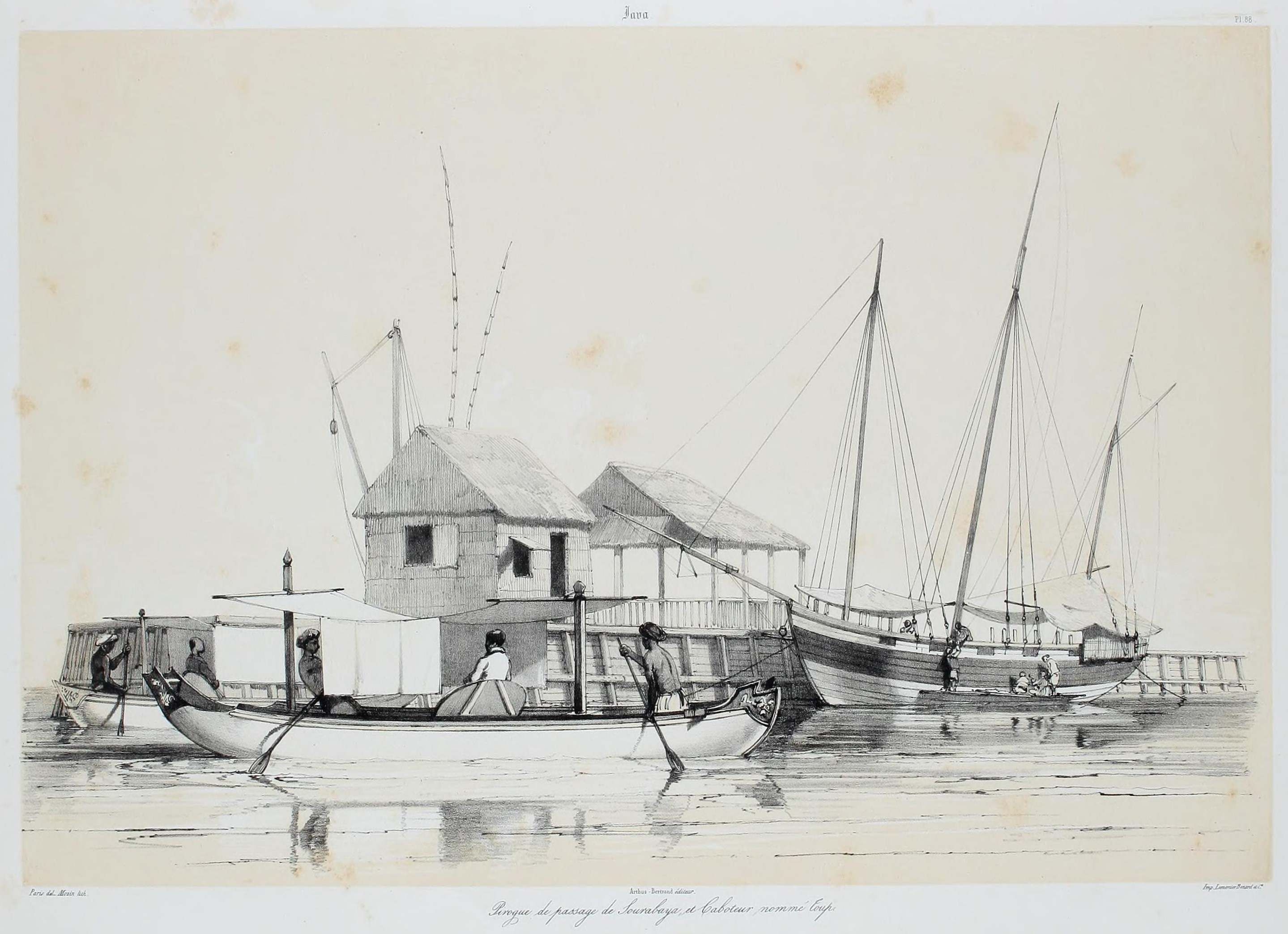 Outrigger canoe from Surabaya and coaster named Toup (toop).